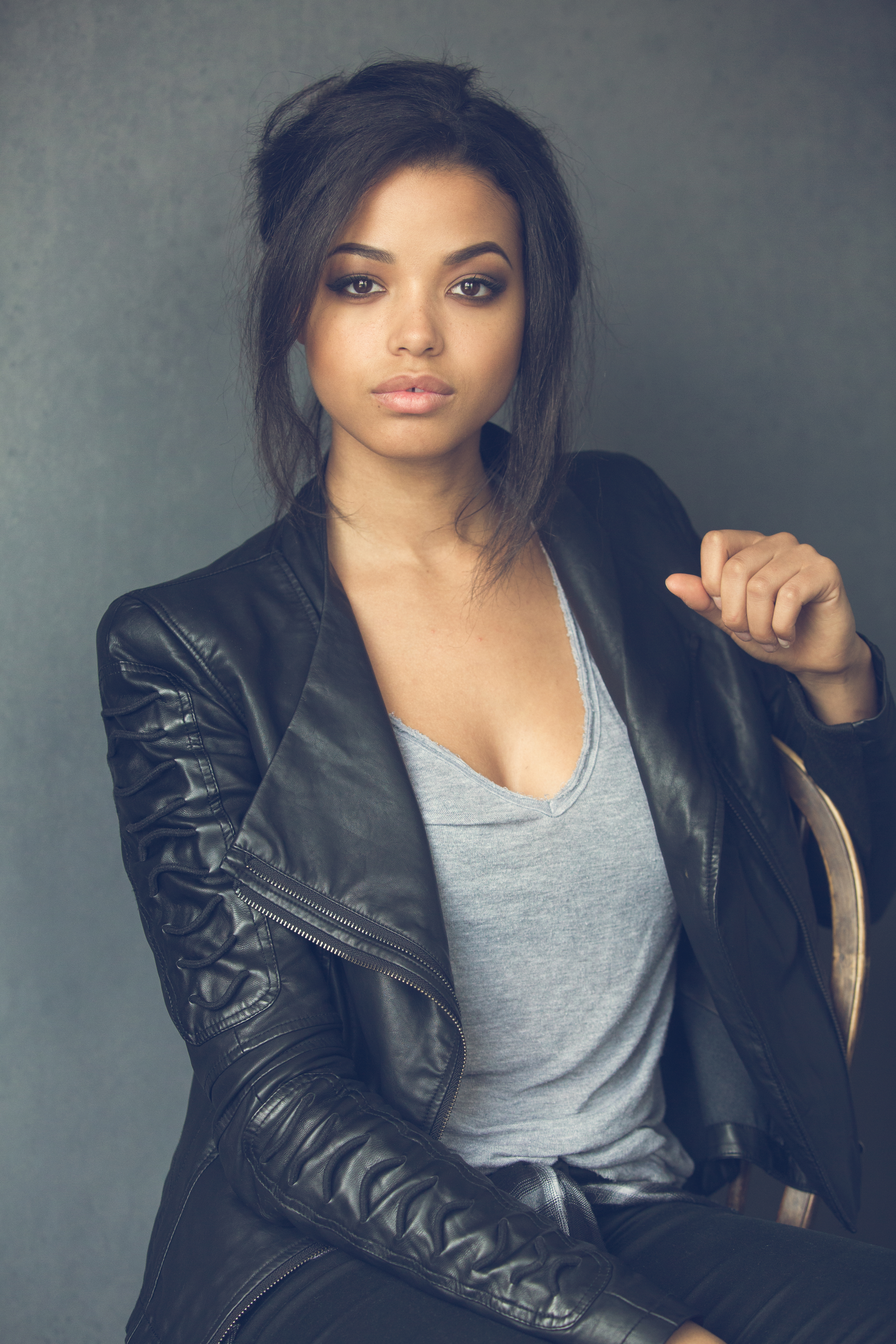 Ella Balinska